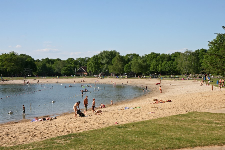 Het Hulsbeek (recreational area)